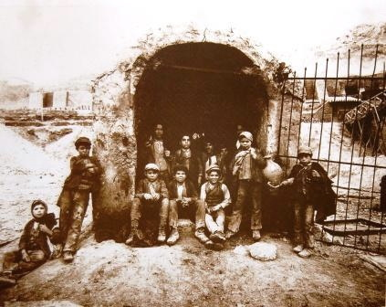 Eugenio Interguglielmi (1850-1911), "Sicily - Carusi (boys) before a sulphur mine, 1899".